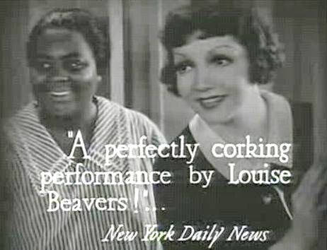 Cropped screenshot of Louise Beavers and Claudette Colbert from the film Imitation of Life (1934)